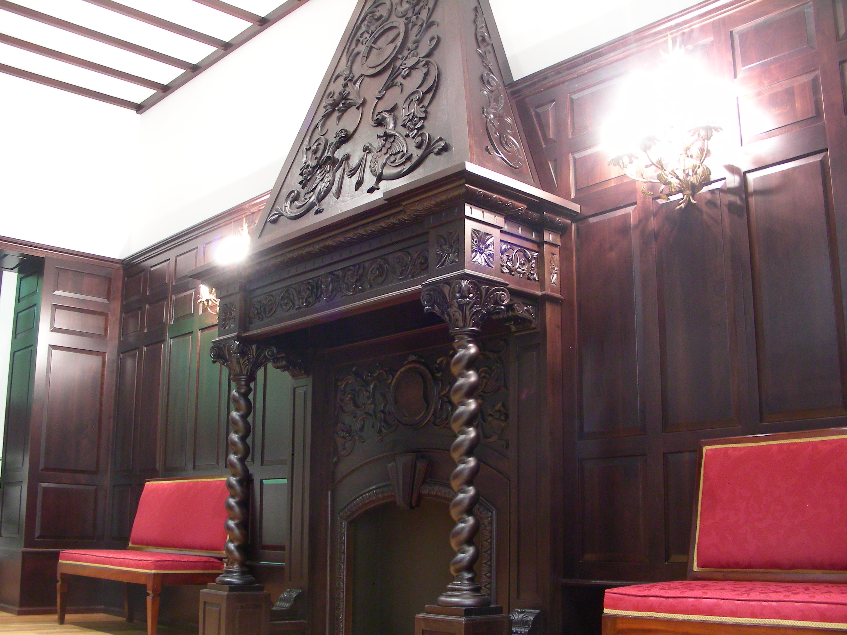 Hall´s chimney at the Román Pérez house at Isla Cristina